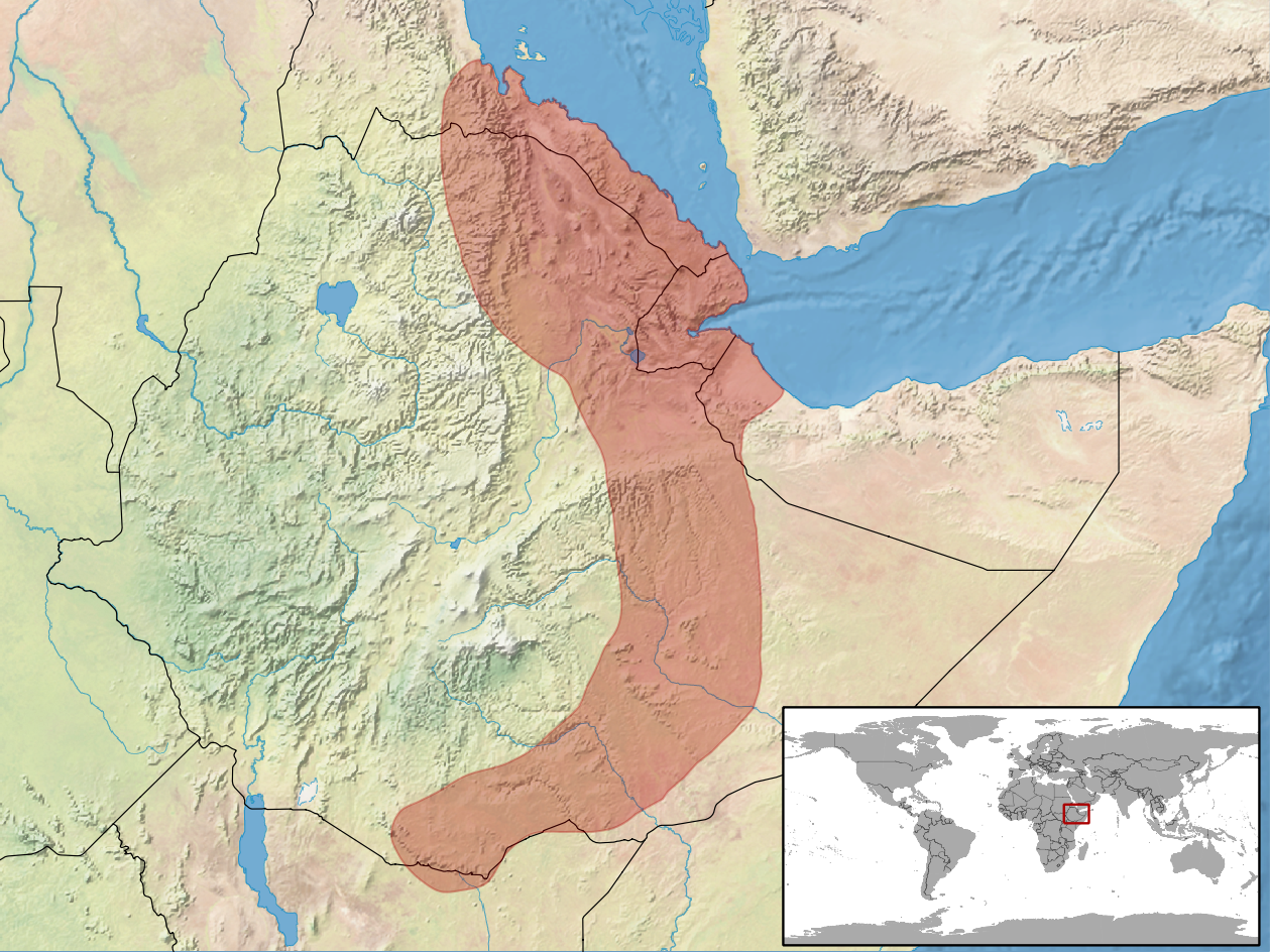 geographic distribution of Acanthocercus annectens